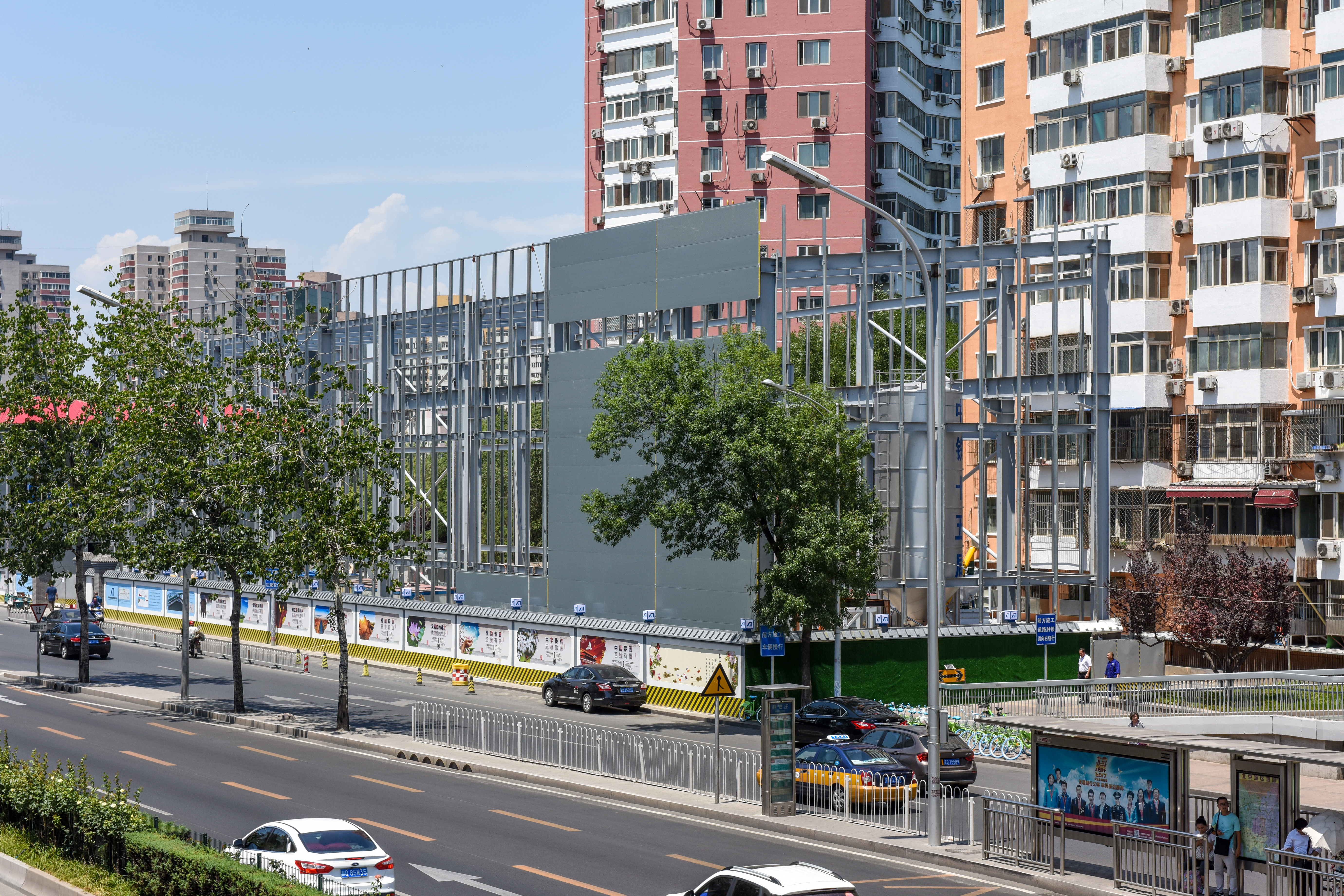 This is an interchange station between L12 and L17.